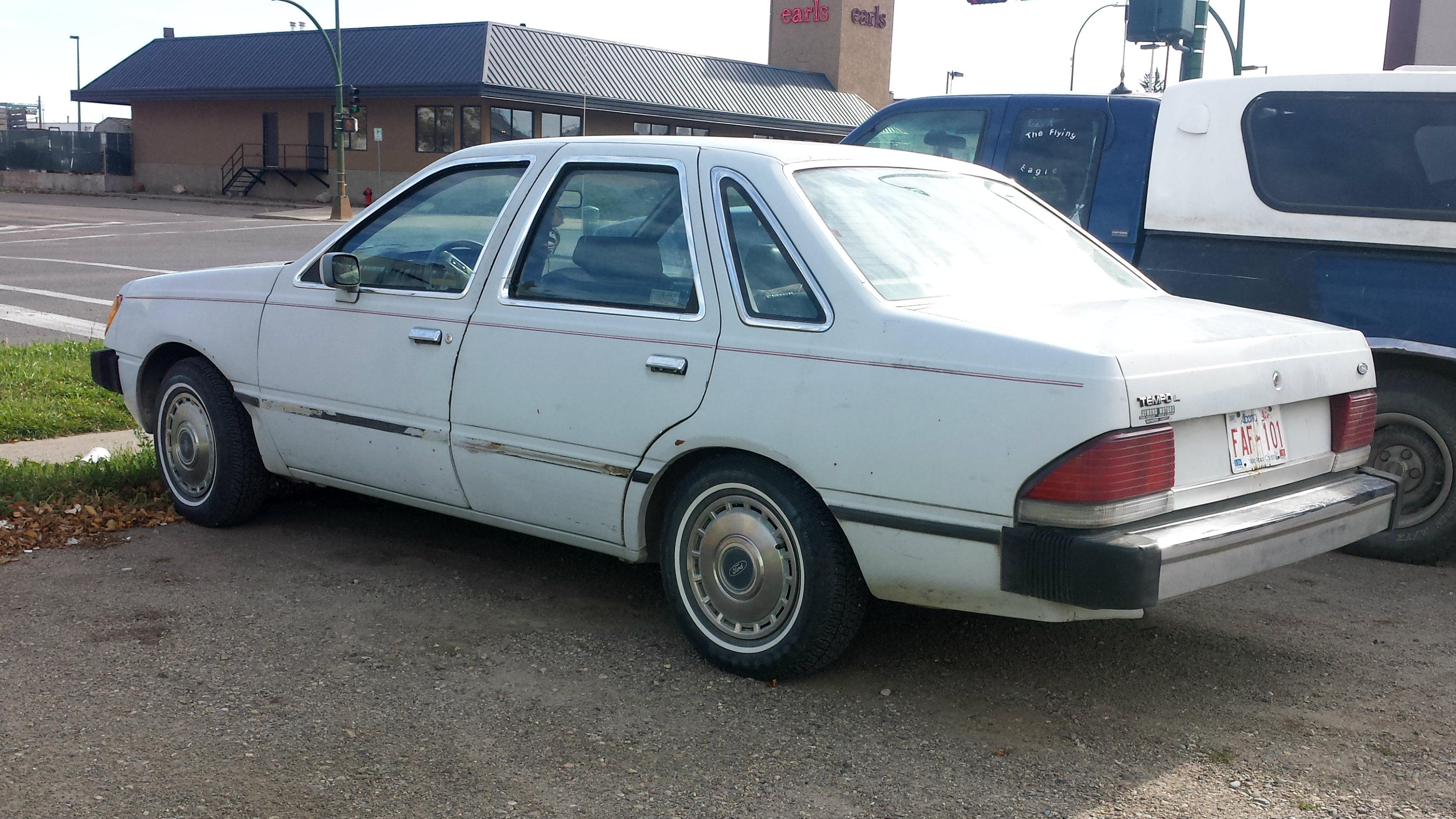 Rare to see these days first generation Ford Tempo sedan.